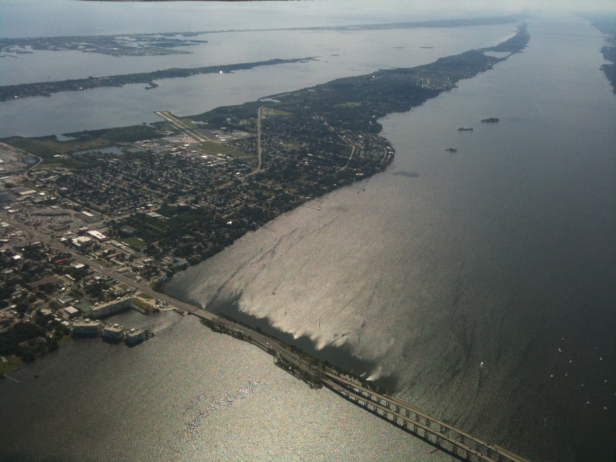 Photograph of Merritt Island, FL from an altitude of about 4,000 feet from a Cessna 172. Merritt Island Airport is in the center.